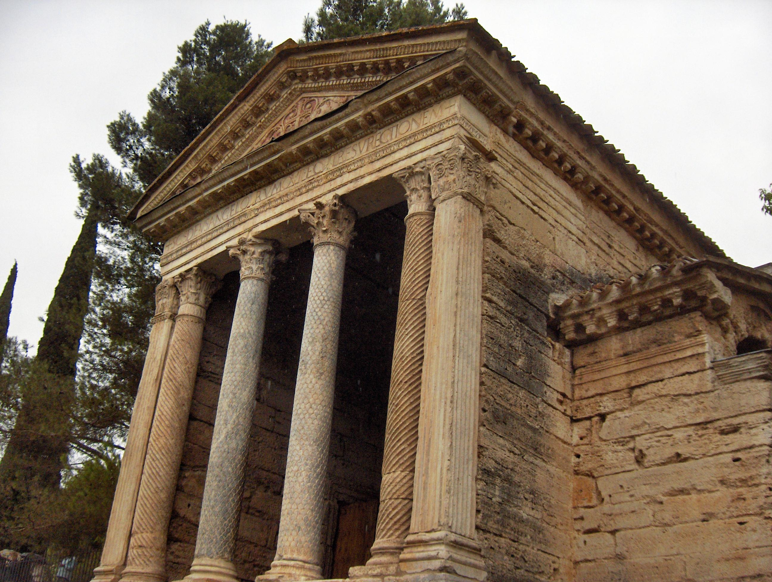 The former Roman temple dedicated to the river god Clitumnus and transformed into an early-Christian church (probably in the fourth century); located in Campello sul Clitunno, south of Trevi, Italy.